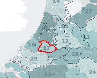 Schieland_en_de_Krimpenerwaard